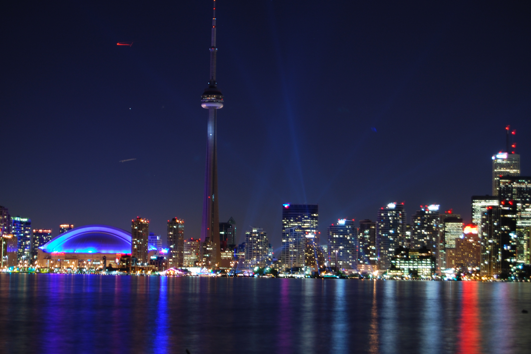 The Pulsefront light show seen from Toronto Island.